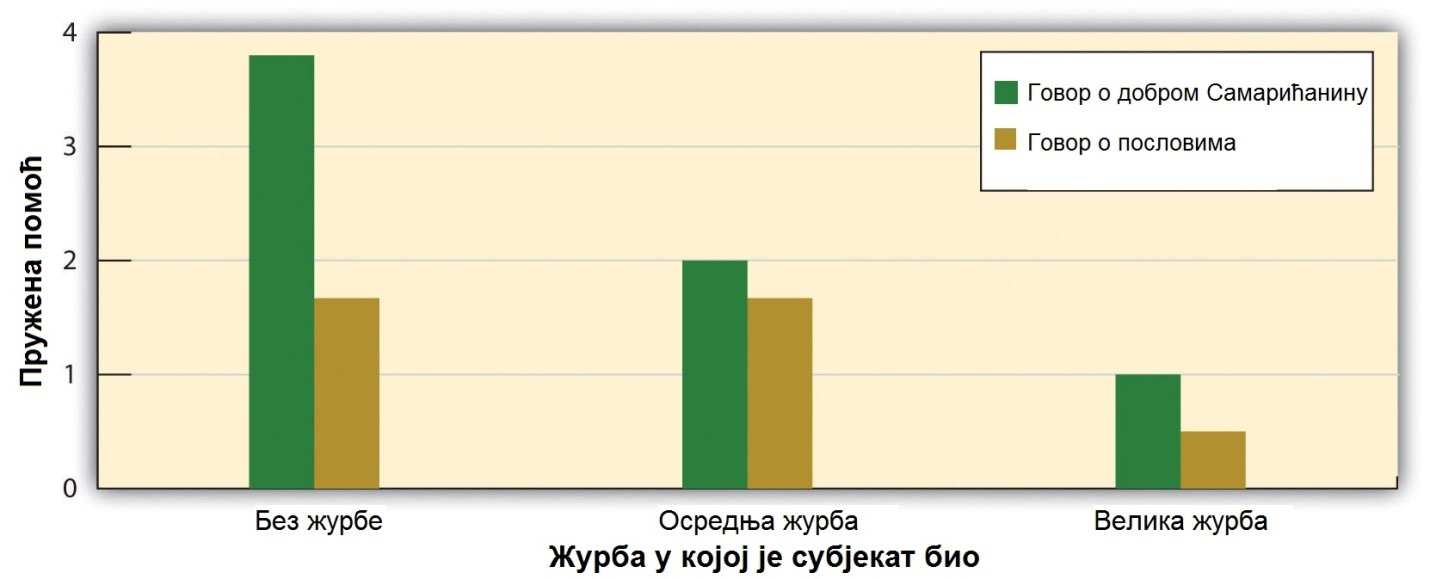 Good Samaritan experiment results